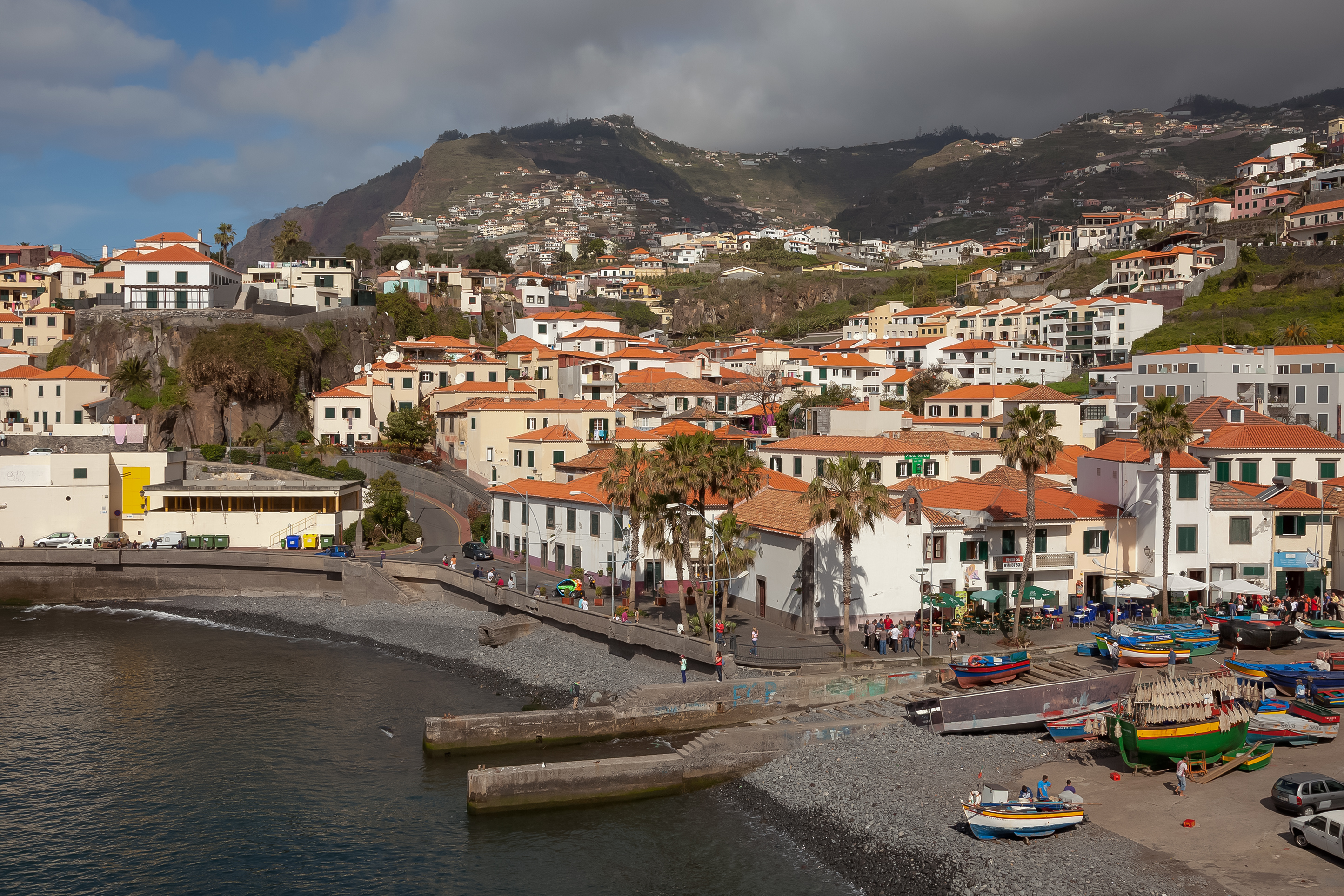 Madeira, Câmara de Lobos